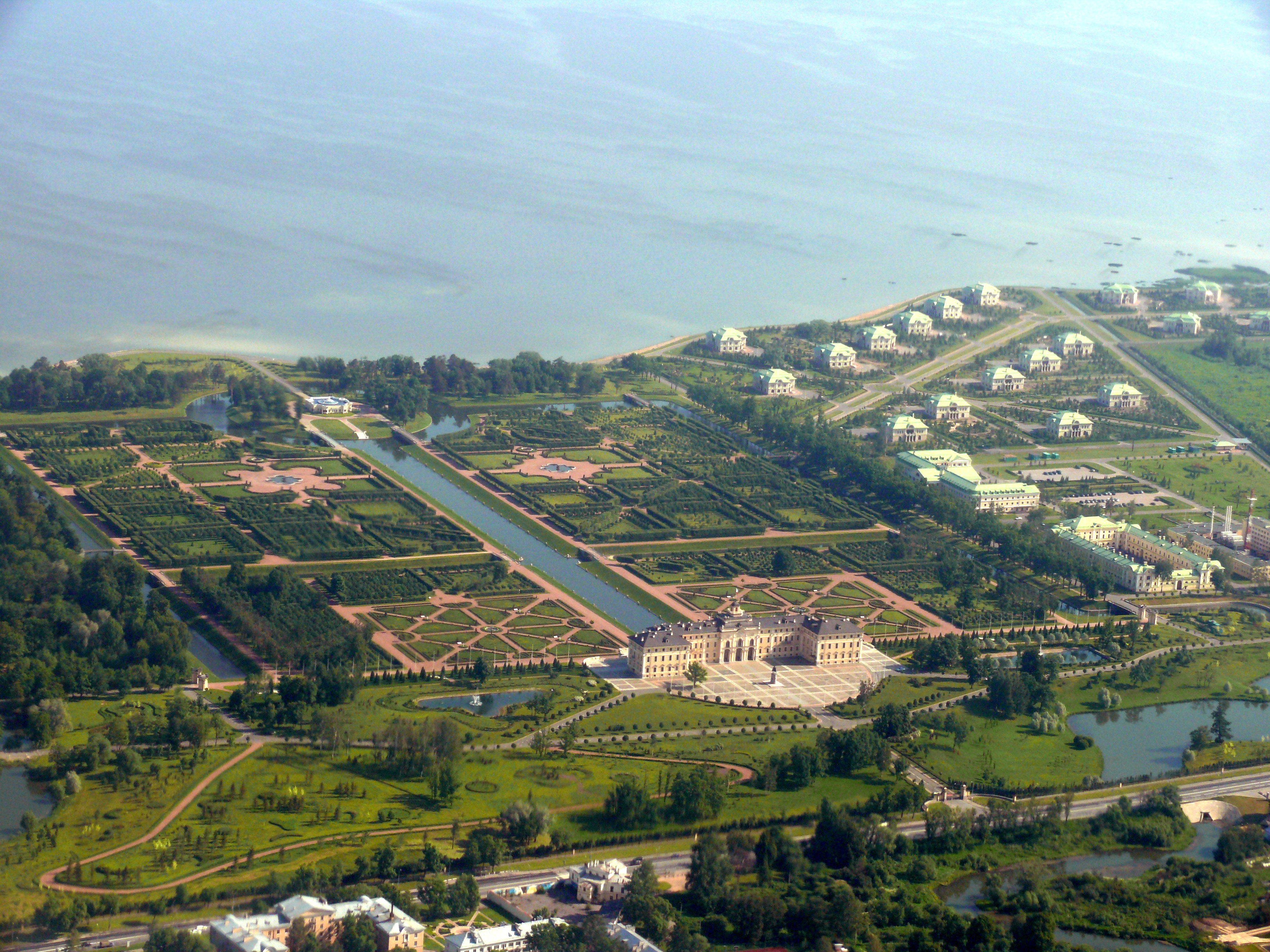 Strelna